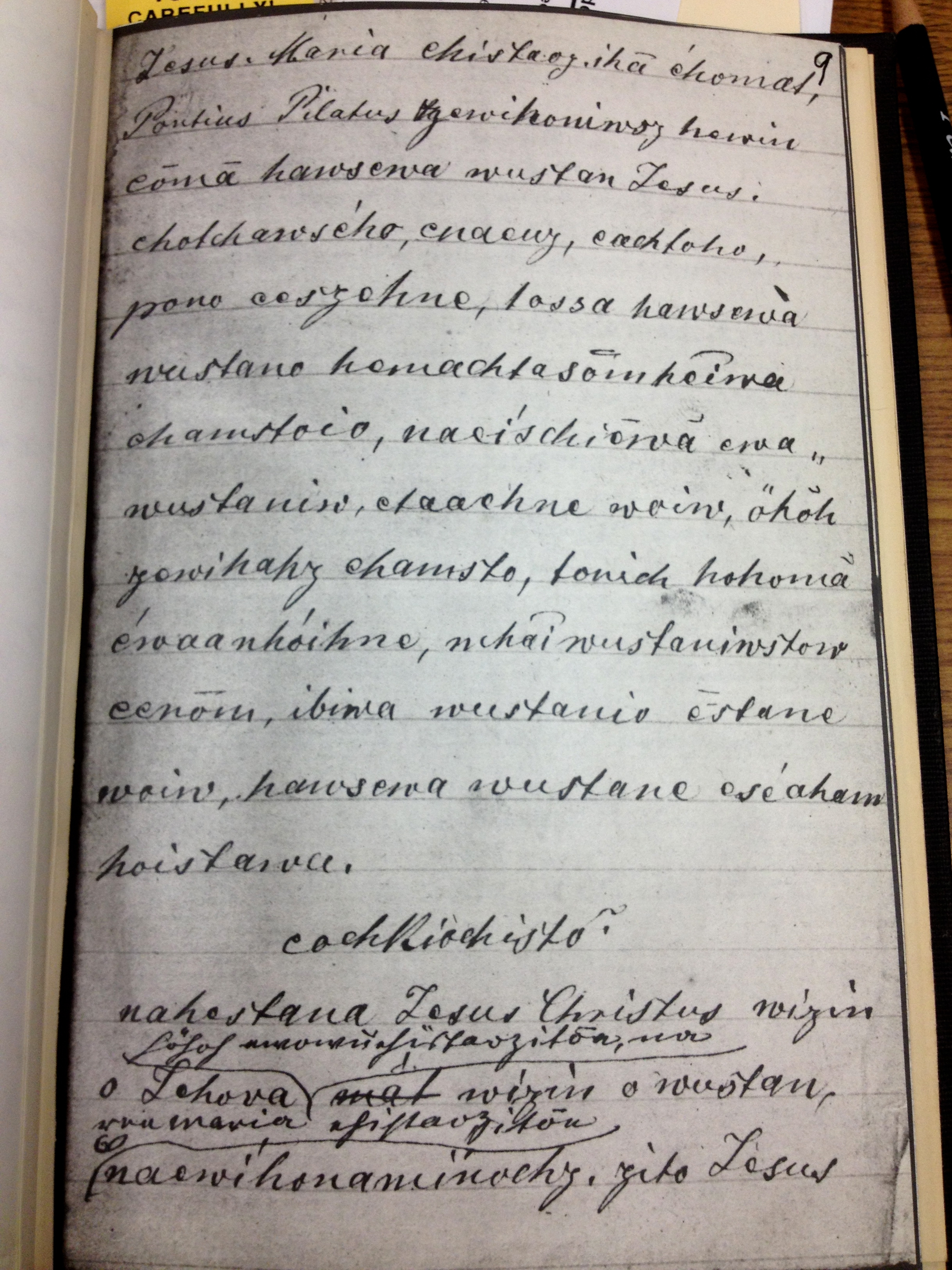 Luther's Small Catechism, translated into the Cheyenne language by missionary Karl Krebs in the 1860s. This copy held by the Library of Congress.